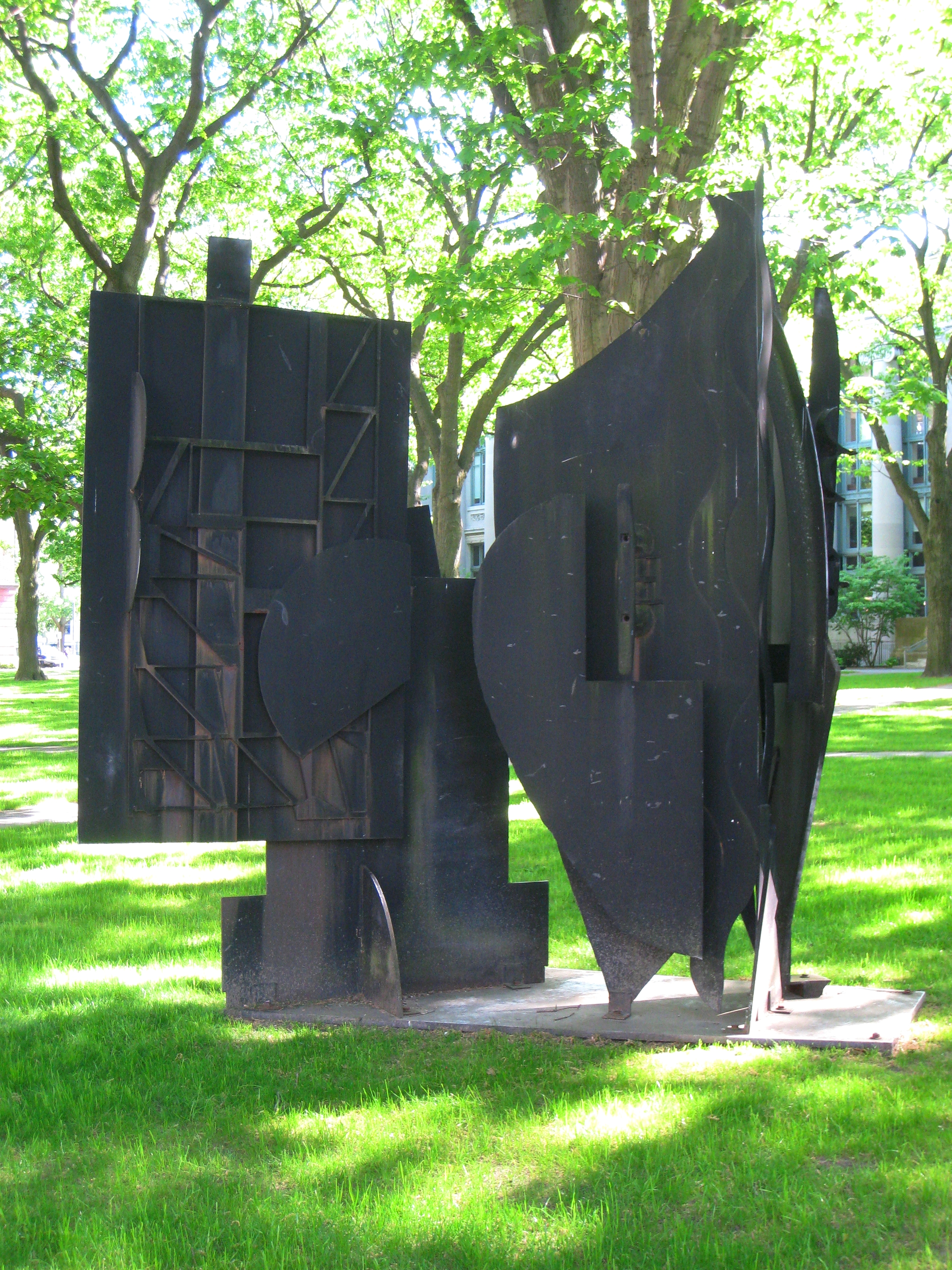 Courtyard sculpture — Harvard Law School, Harvard University, Cambridge, Massachusetts. Artist unknown.